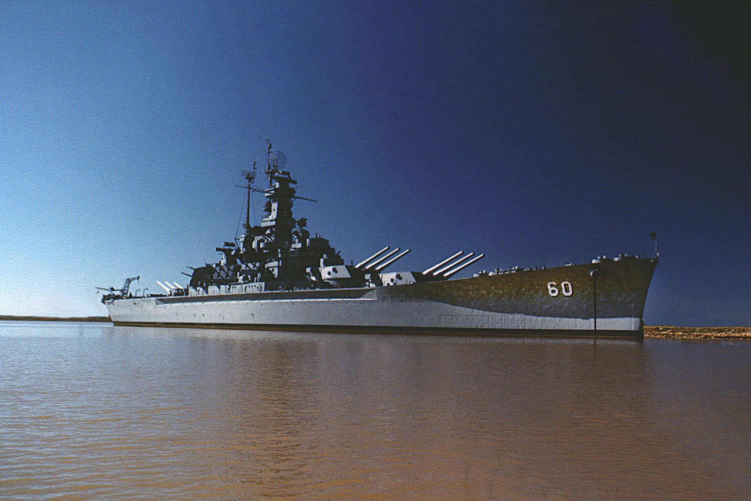 USS Alabama (BB-60) in port at Mobile, Alabama, USA. The ship is permanently moored in Mobile as a museum ship. Coordinates: 30°40′54.6″N 88°0′51.93″W / 30.681833°N 88.014425°W